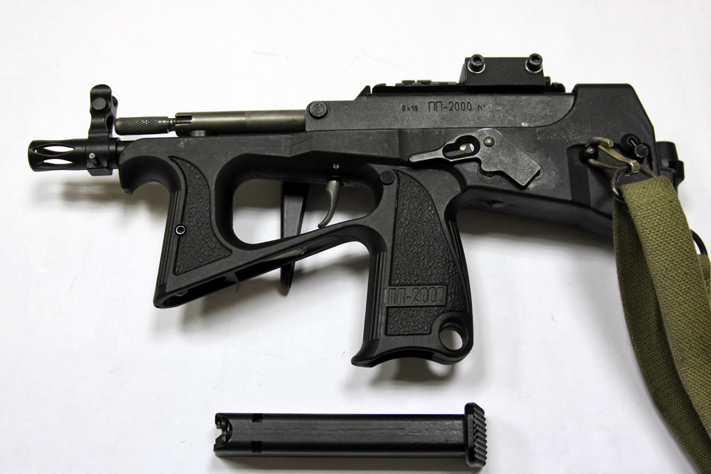 9mm PP-2000 submachine gun with Zenit-4TK laser sight and detached magazine